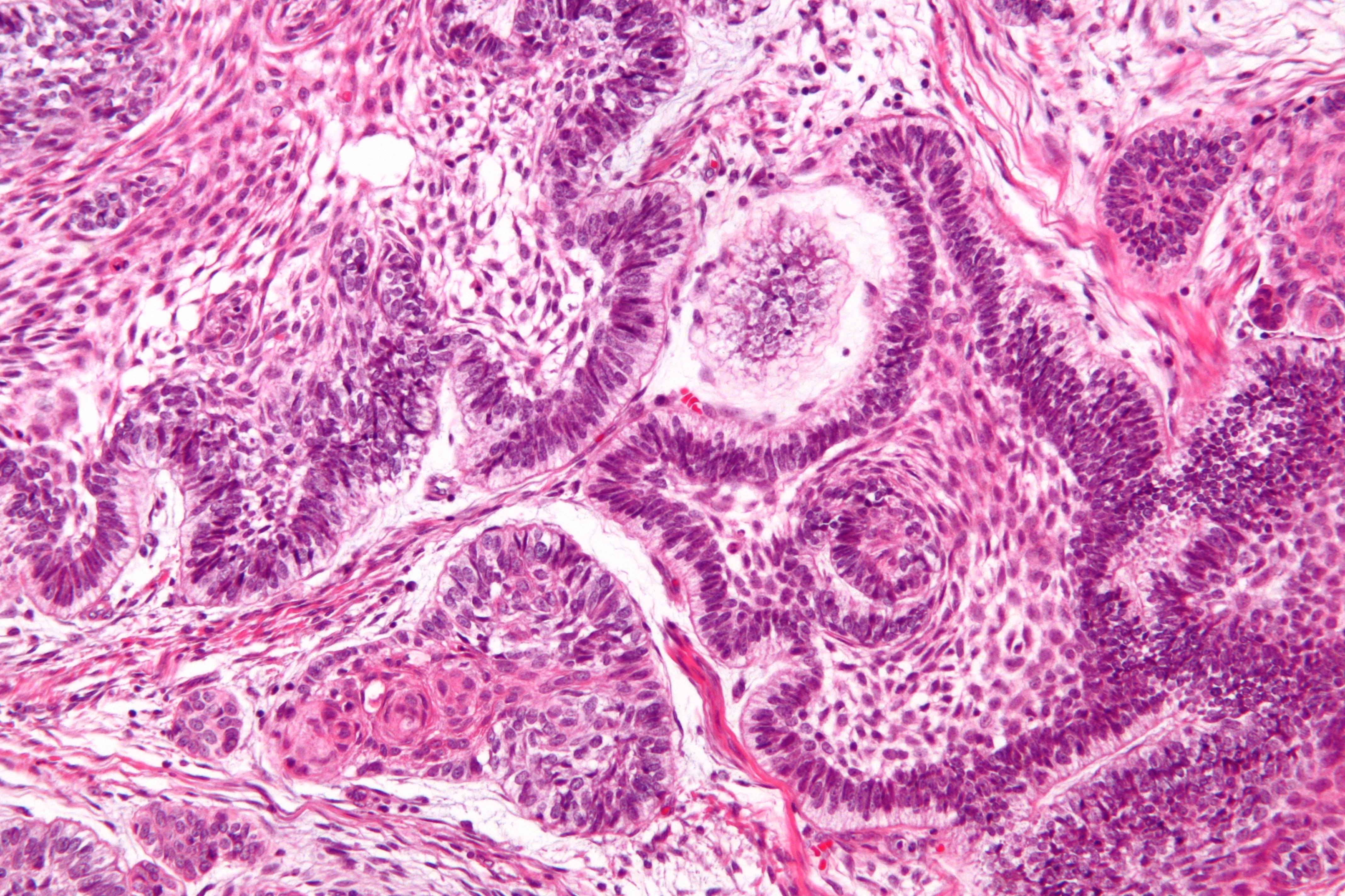 High magnification micrograph of an ameloblastoma. H&E stain. The images show the characteristic features: Islands of cells with palisaded nuclei that have reverse polarization. Reverse polarization of nuclei = nuclei distant from the basement membrane/nuclei at pole opposite of basement membrane. Palisaded nuclei = picket fence appearance; columnar-shaped nuclei with long axis perpendicular to the basement membrane. Subnuclear vacuolization in palisading cell - vacuoles at the basement membrane aspect. Loose stroma around the islands of cells. Star-like cells at the centre of the islands of cells (stellate reticulum). Related images Low mag. Intermed. mag. High mag. Very high mag.